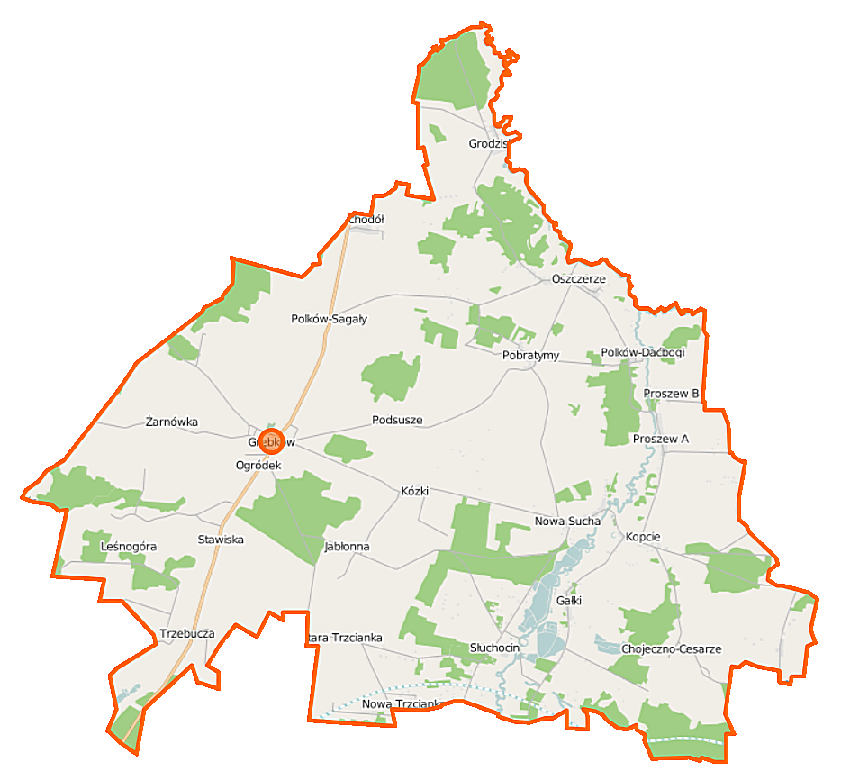 Map of Gmina Grębków, Poland This map of Grębków (gmina) was created from OpenStreetMap project data, collected by the community. This map may be incomplete, and may contain errors. Don't rely solely on it for navigation. Border coordinates52.351921.8274←↕→22.084252.2061